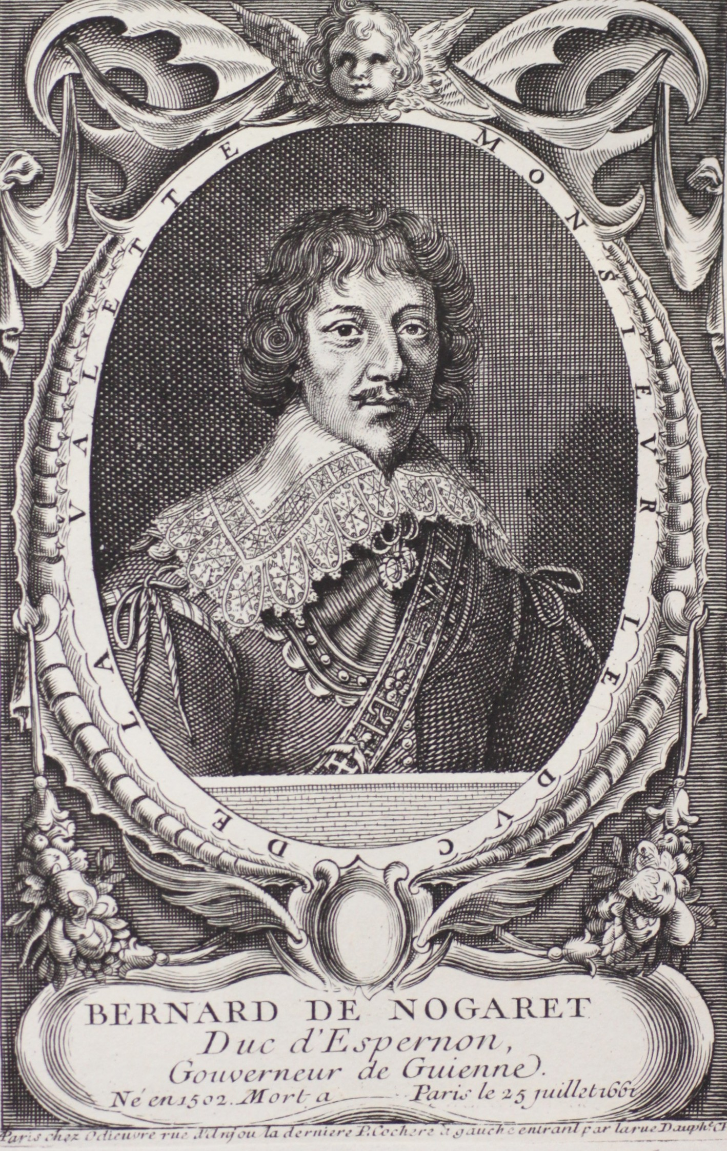 Bernard de Nogaret, Duke of Epernon in Histoire du Règne de Louis XIV by Reboulet, Avignon 1744